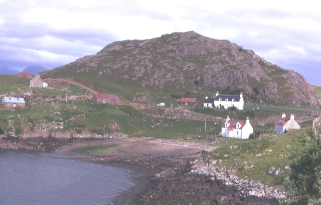 Ardheslaig on Loch Beag, Loch Torridon lies beyond, on the left in the distance, partly obscured by the small rocky outcrop of Aird (86 m), are the mountains around Shieldaig